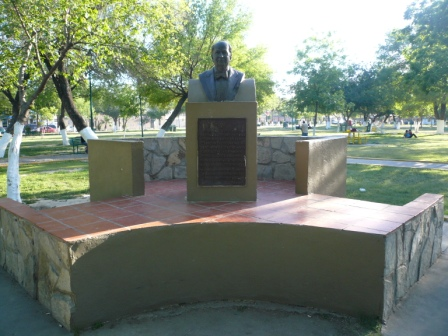 Monument to Dr_Carlos_Canseco_Gonzalez_NL-Tamps